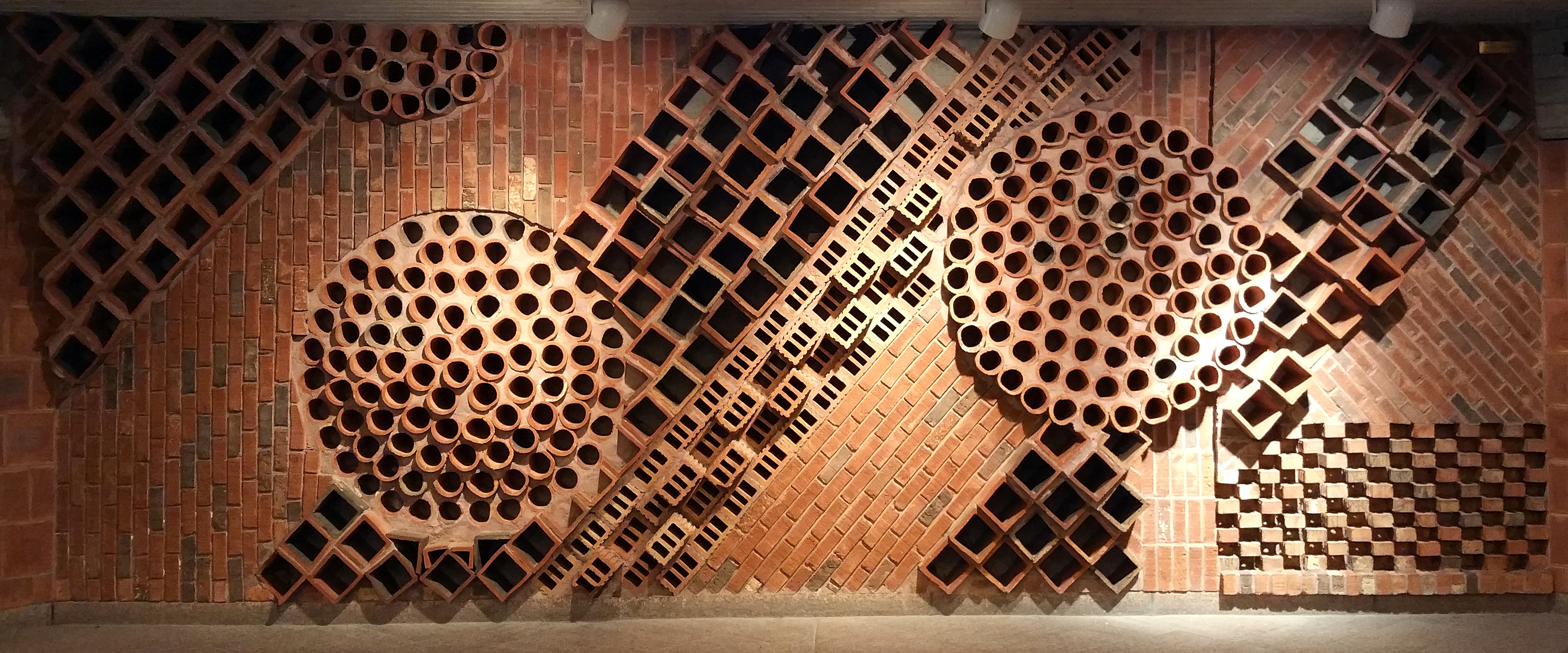 Le Potager, André Léonard, at Montreal Metro Station Henri-Bourassa. One of two works from that artist in the station.